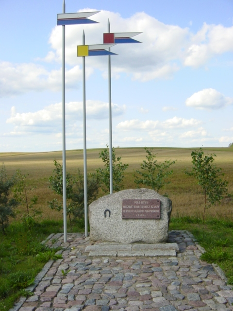 Battlefield Krojanty memorial near Krojanty village, northern Poland.